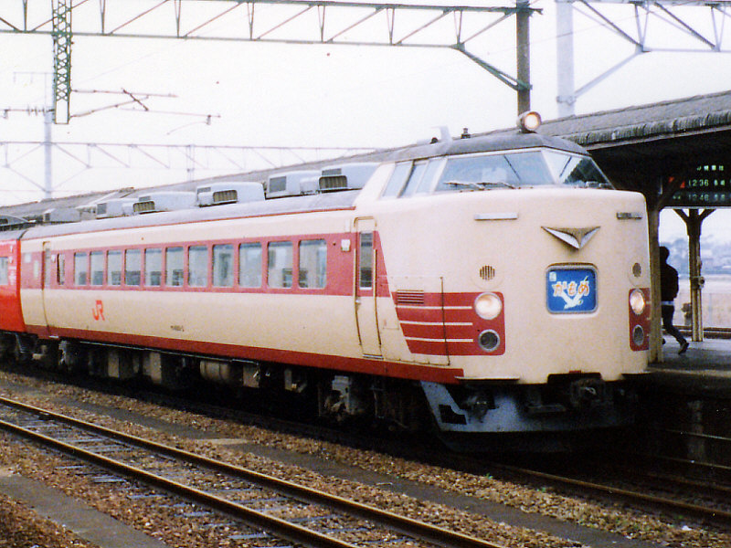 JR Kyushu 485 series EMU at Tosu Station on a Kamome service